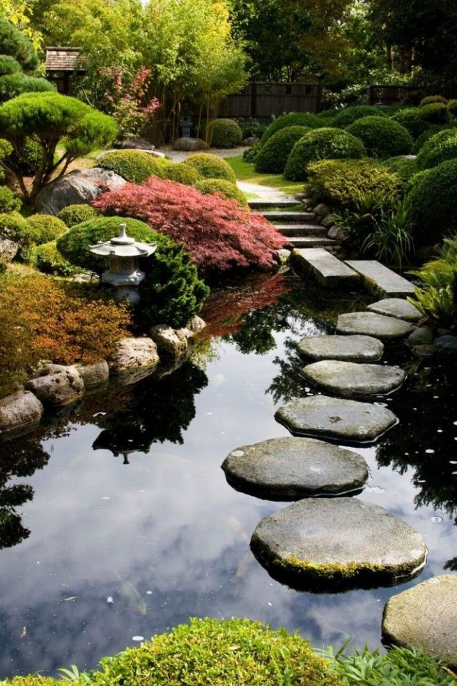 Aparecen representados muchos de los elementos típicos de un jardín japonés (rocas, agua y vegetación)